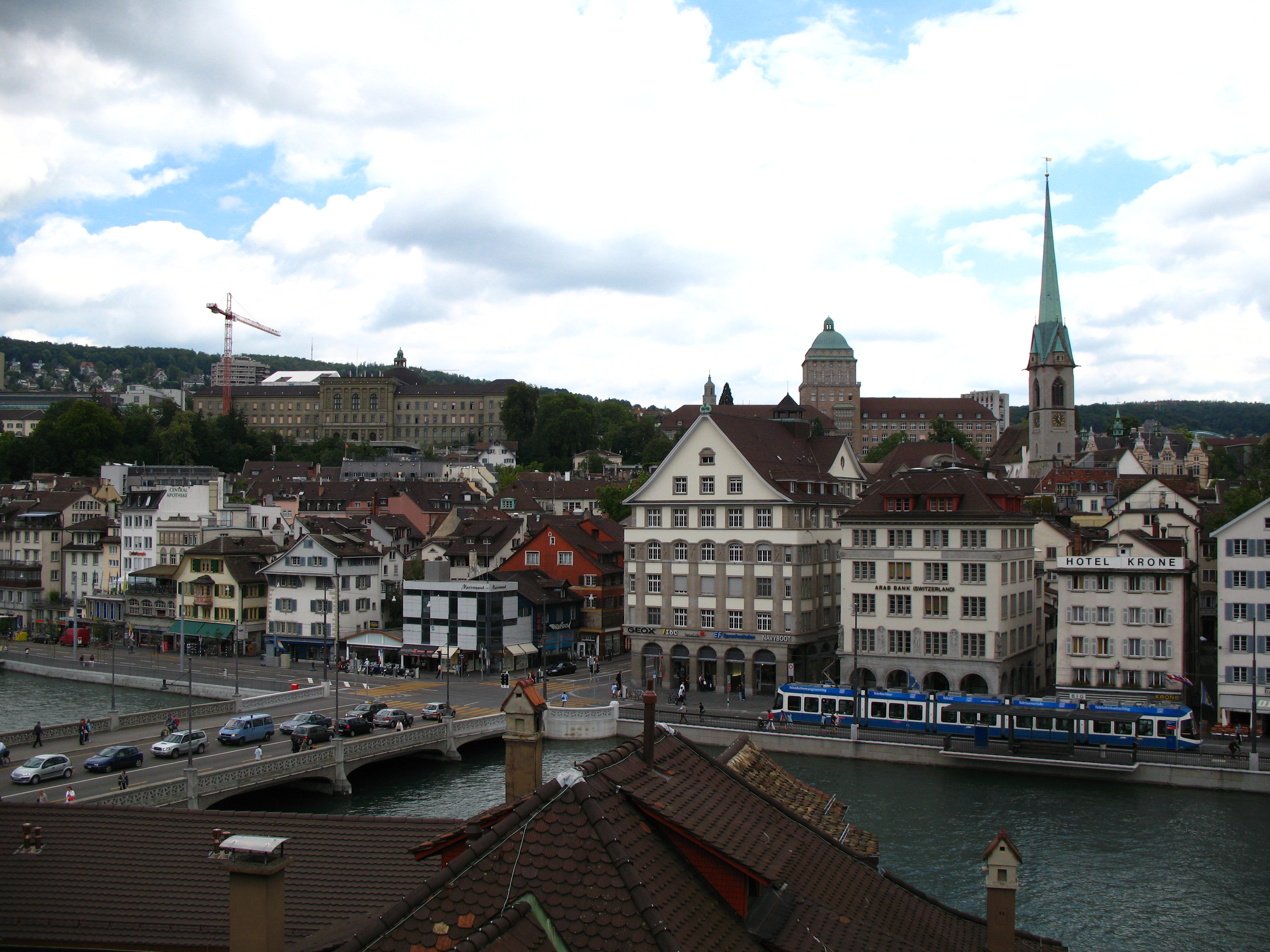 View from Linden Court, Zürich, Switzerland